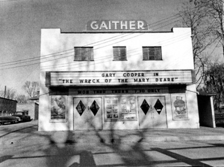 The Gaither Theater, Gaithersburg, Maryland (1959); The Gaither Theater, once named the Lyric Theater, was built by Paul and Hobart Ramsdell on Frederick Avenue, between Diamond and Brookes. It was the only theatre in town for a long time. The building burned down in the mid 1990s and by then, was being used to sell ready-made kitchen cabinets. The photo on the left was taken in 1959. The theater is showing The Wreck of the Mary Deare (1959).